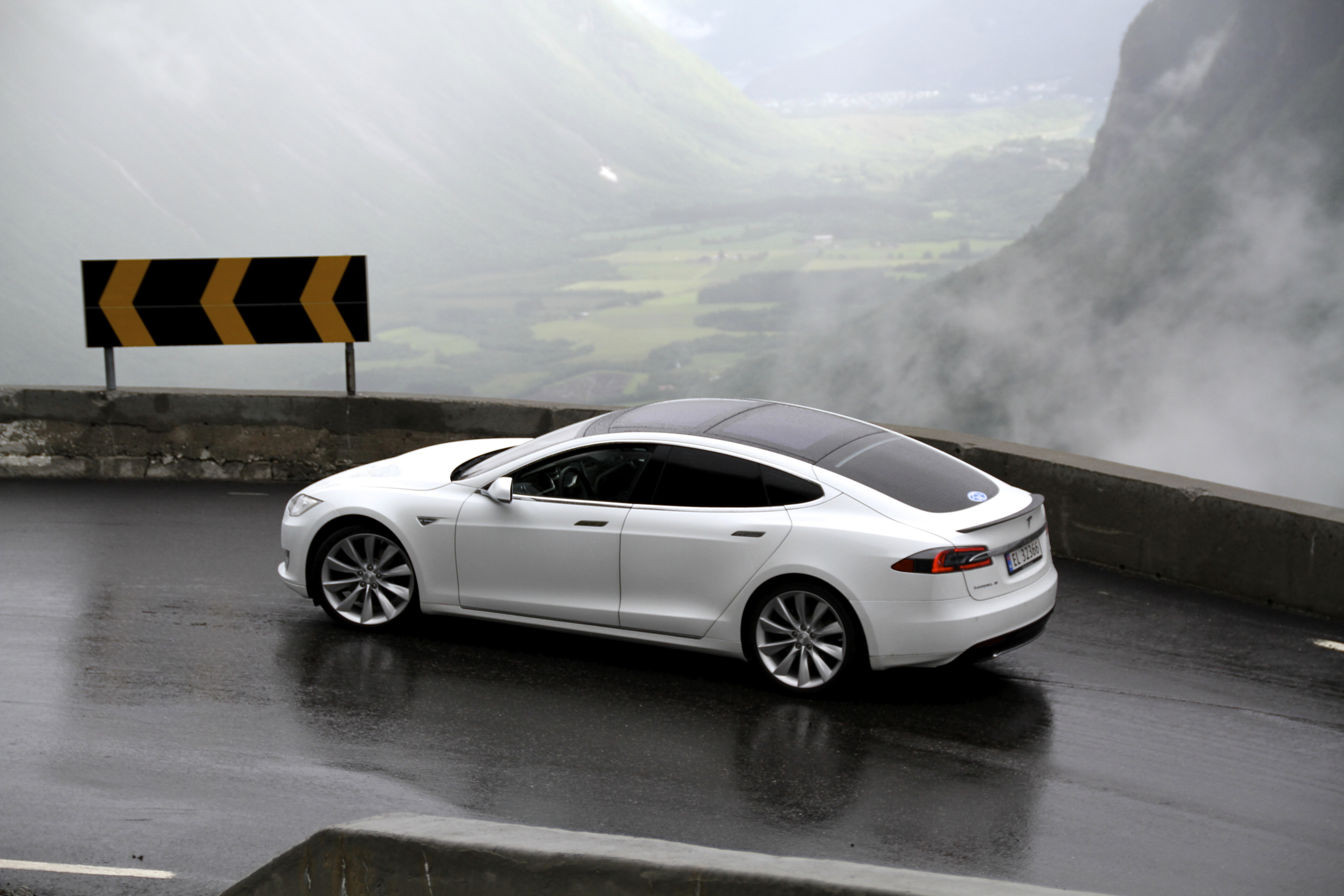 Tesla Model S participating in the EV Rally in Trollstigen, Norway